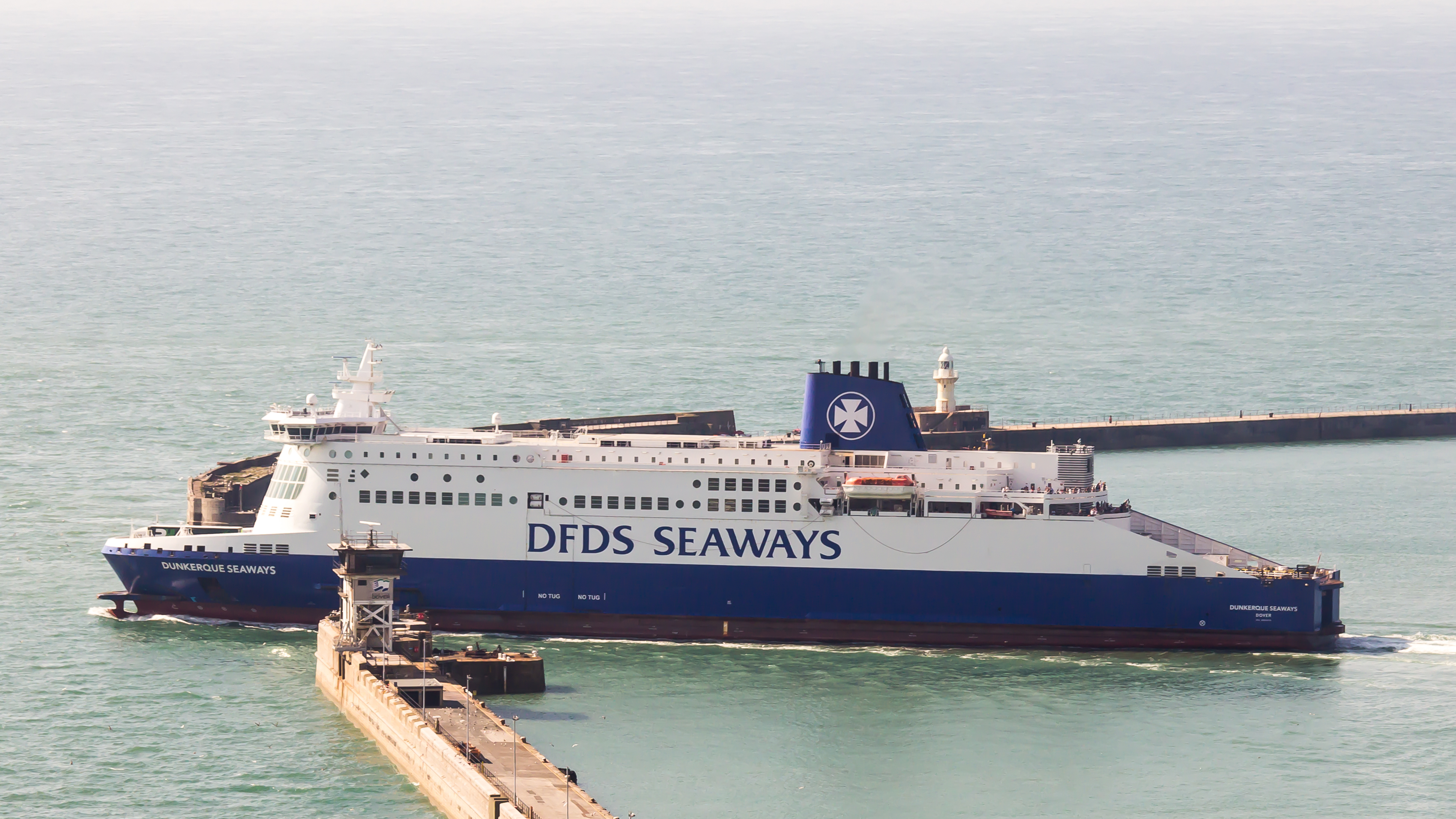 Dunkerque Seaways - DFDS Seaways - leaving the Port of Dover